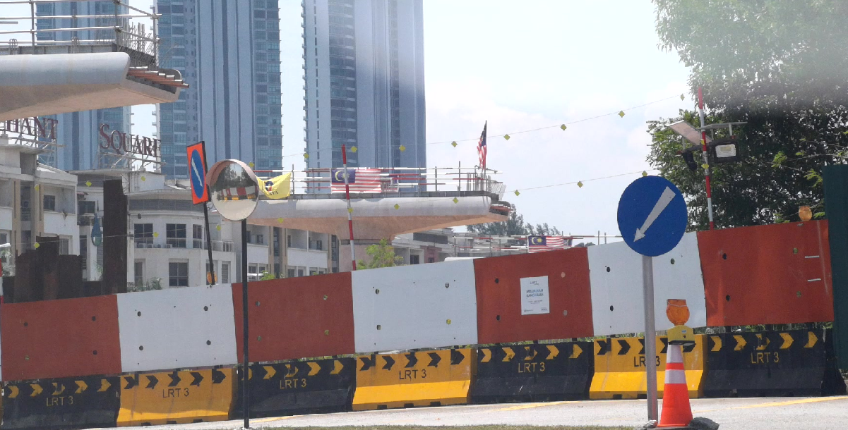 LRT3 working site at Merchant Square